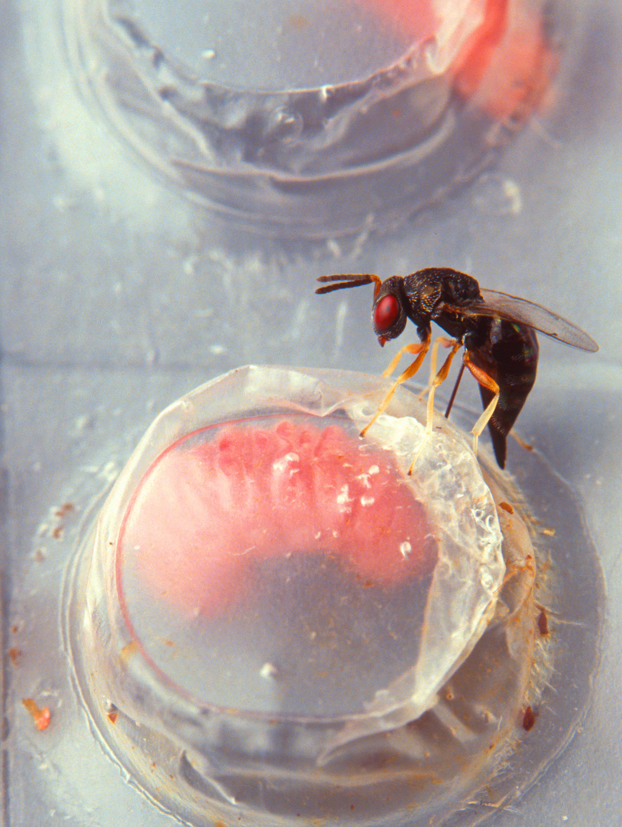 Female Catolaccus grandis wasp from Image Number K5108-16 A female Catolaccus grandis wasp homes in on a boll weevil larva. This 3/8 inch parasitic wasp, a native of Mexico, inserts her ovipositor through the plastic film covering the individual rearing cell and immobilizes the larva. Photo by Scott Bauer.